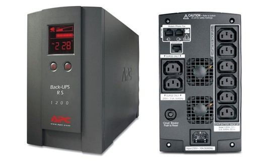 UPS APC in front view and rear view